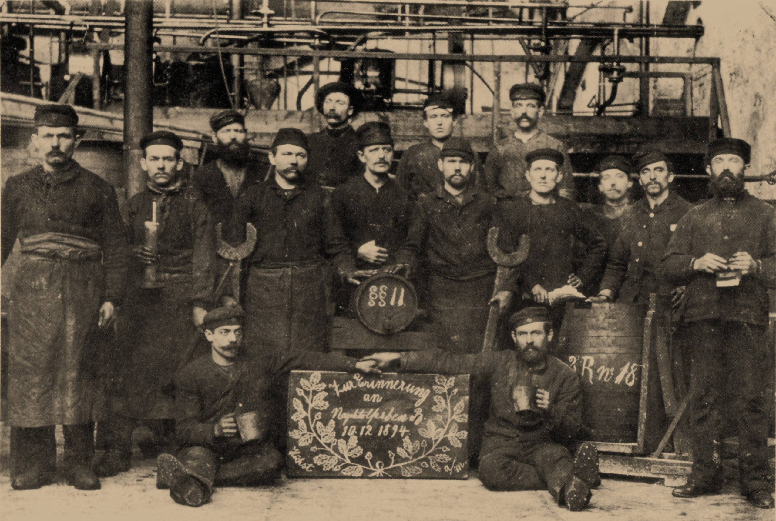 Workers in the naphthol production of the Farbwerke AG yore Meister, Lucius & Brüning in 1894